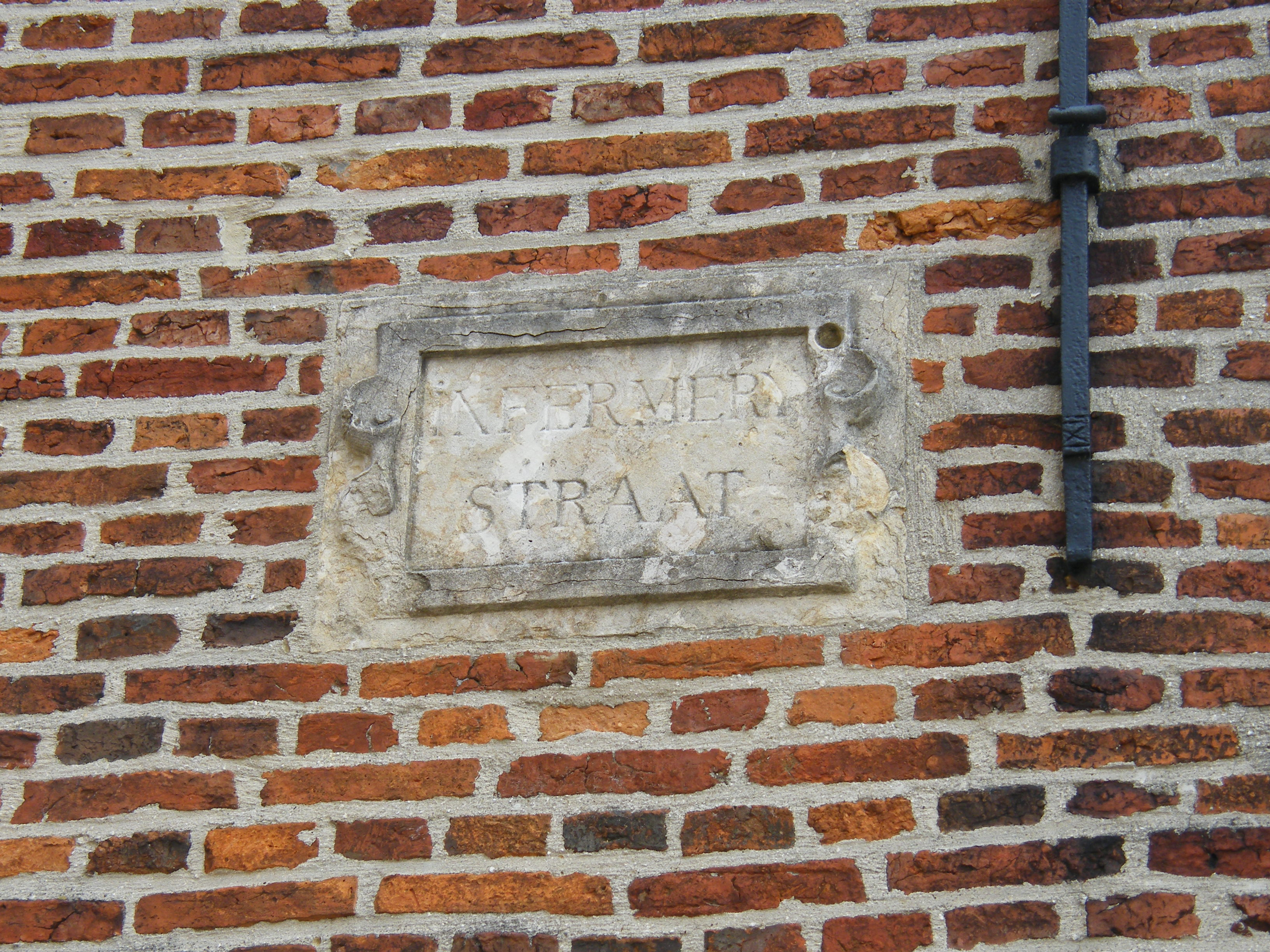 Ancient streetname panel in beguinage in Diest (Belgium): Infermery street